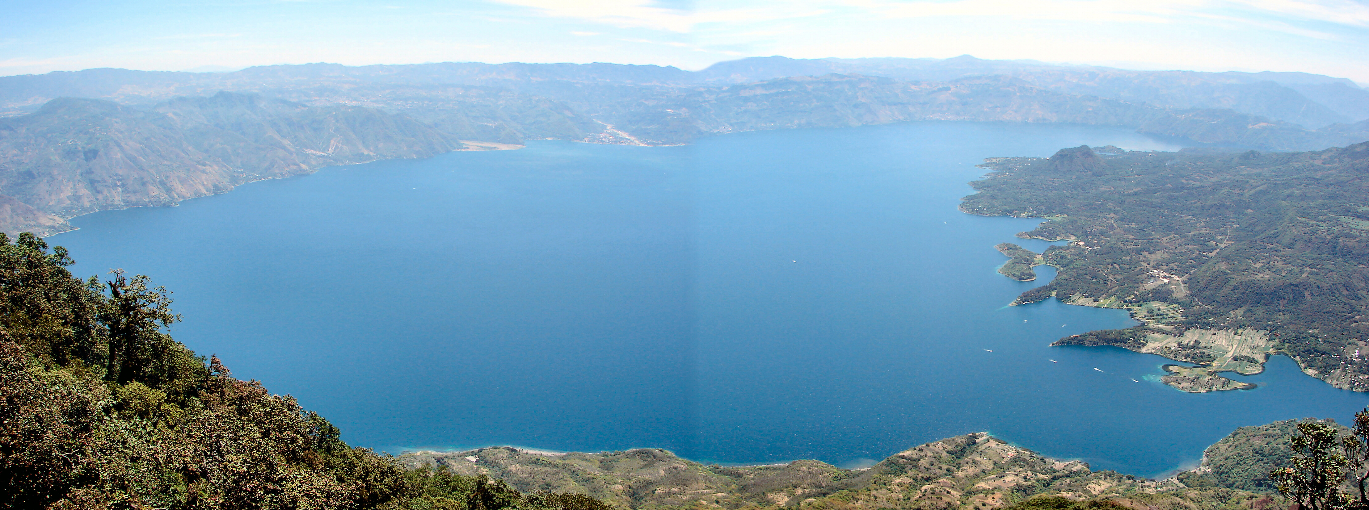 Lago Atitlan as seen from the top of Volcan San Pedro. The top is at 3018 metres above sea level and the lake is some 1200 metres lower. Straight across the lake is the village Panajachel, and down on the right side you can see the outskirts of Santiago Atitlan.